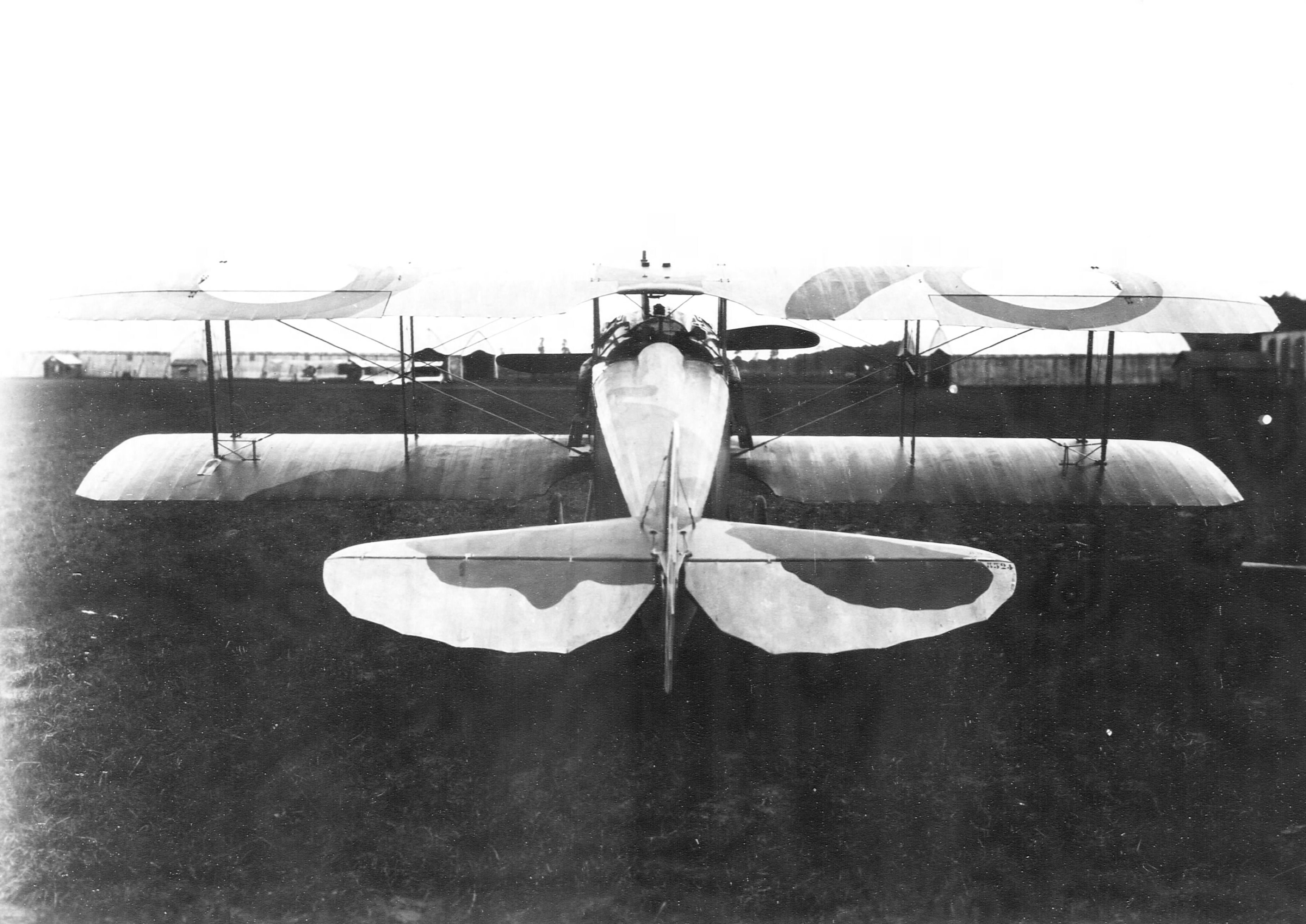 SPAD S.XIII at Air Service Production Center No. 2, Romorantin Aerodrome, France, 1918